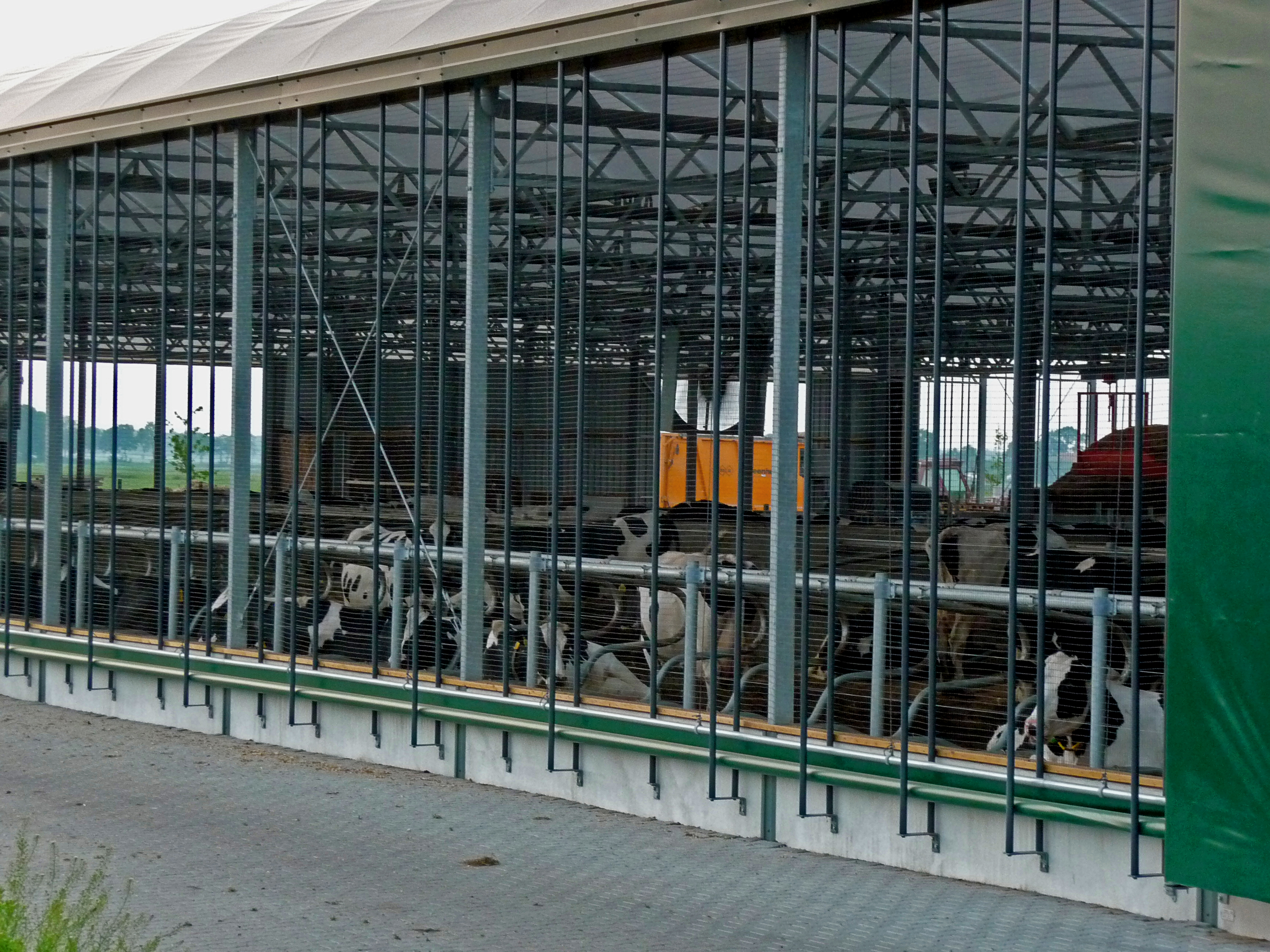 photo of milk-cows in a modern high-tech open-air-cowshed at the Laaghalerveen peat-grounds near Hooghalen; modern agriculture of the Netherlands, May 2012 – These milk cows don't leave the stable any more for their whole life. They have become real stable-cows.